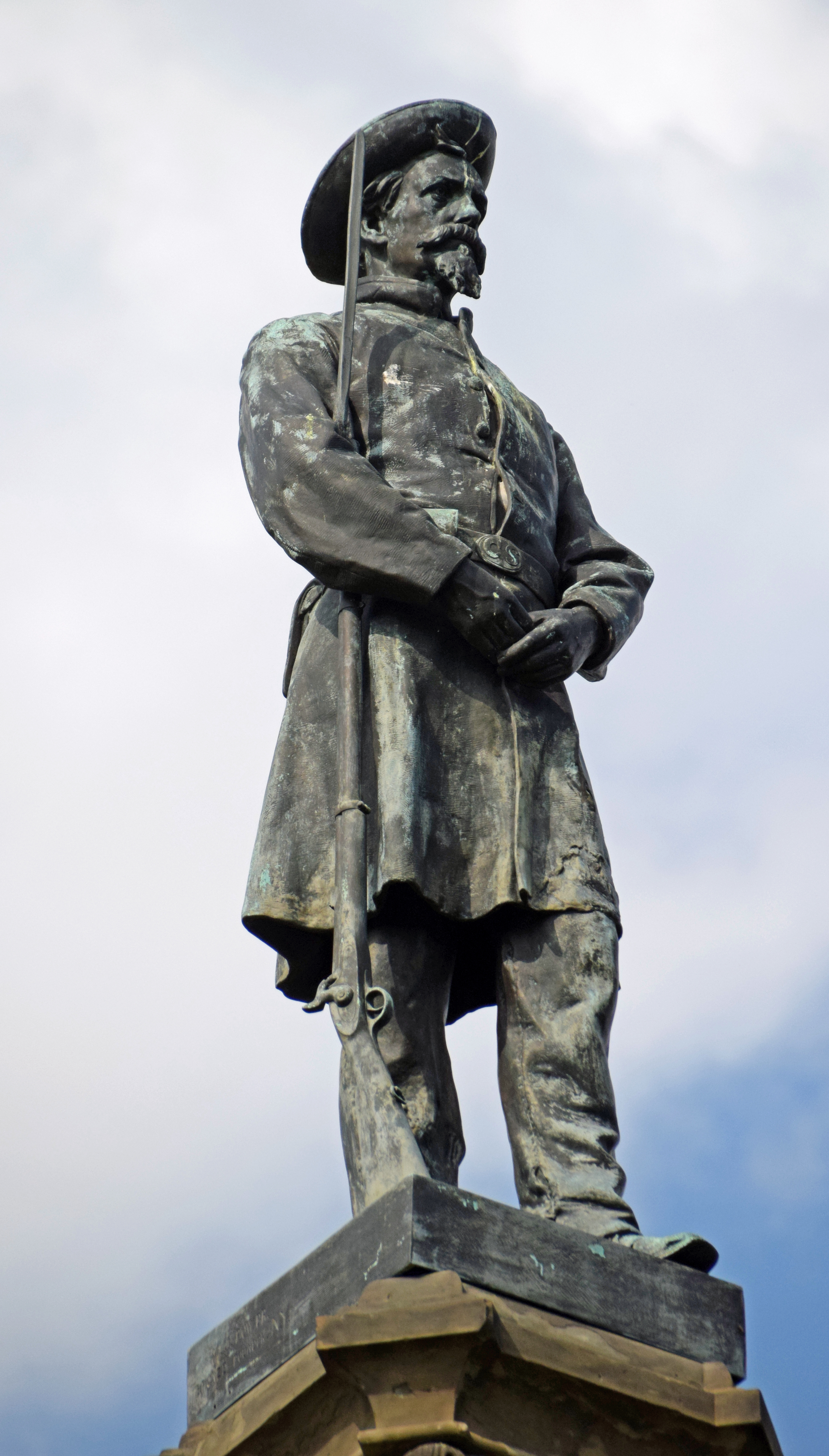 Savannah, Georgia USA - Forsyth Park - Confederate Memorial detail